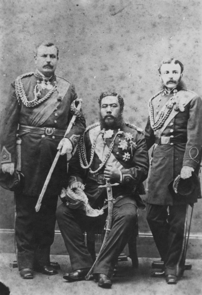 King Kalakaua and staff. Left to right: Col. C.N. Judd, H.M. David Kalakaua & Col. G.W. MacFarlane.